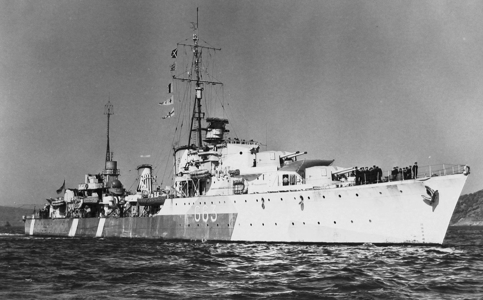 Destroyer of the Tribal class HMCS Haida (G 63), during World War 2.